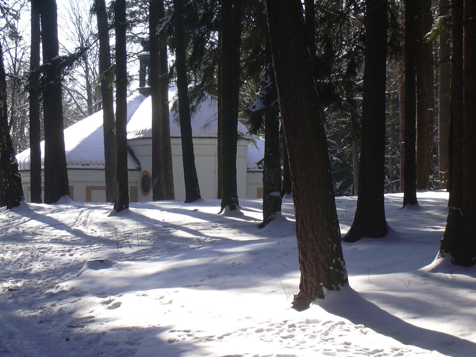 chapel on the top of Skalka, Hřebeny (Brdy) hills